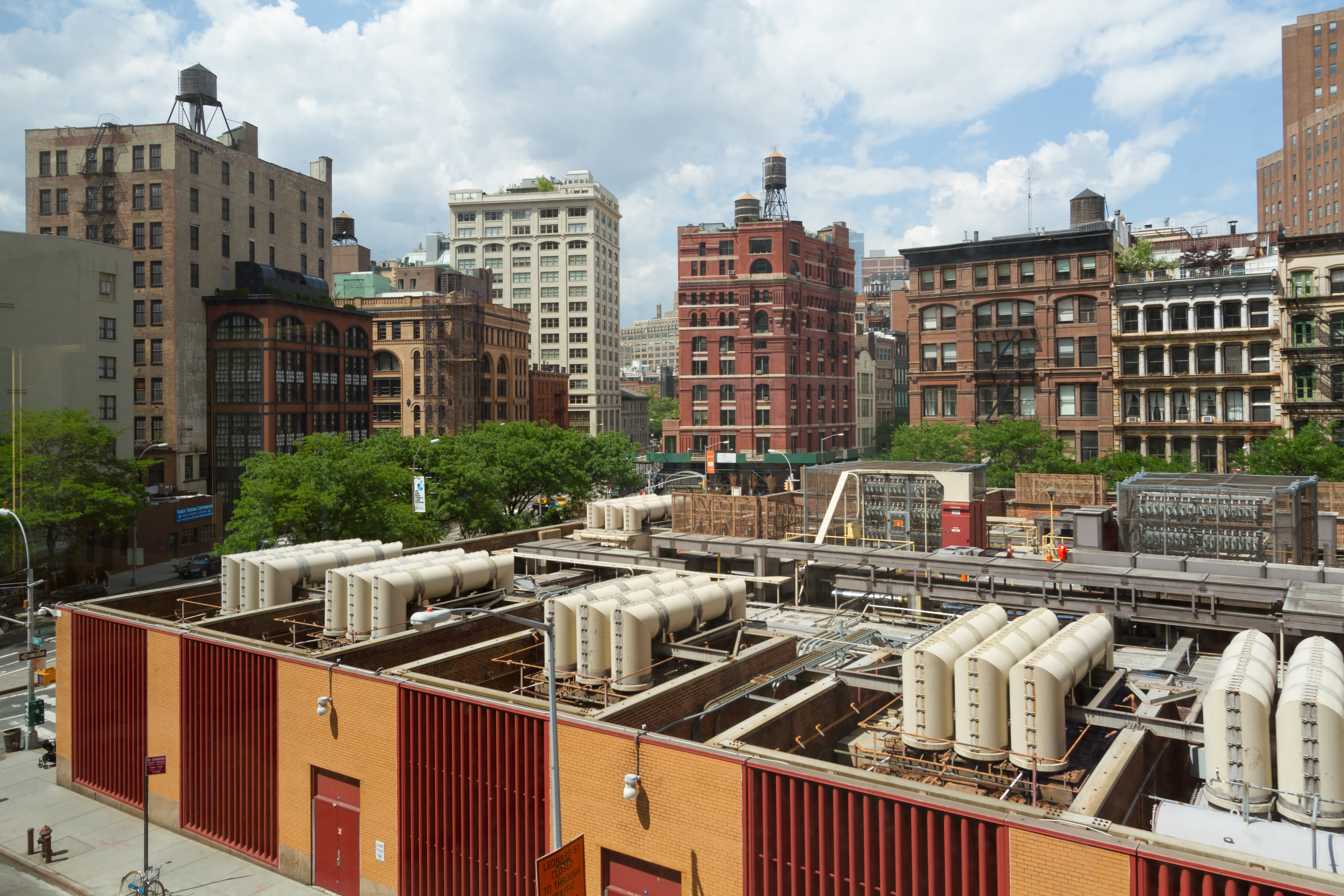 View of Tribeca, New York City, as seen from the New York Law School.